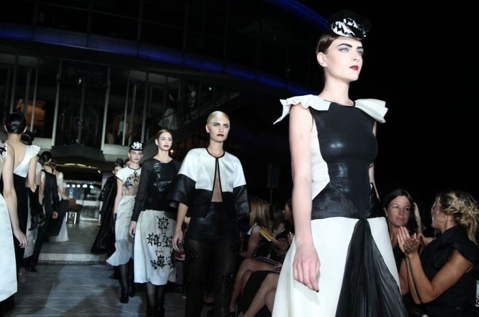 Zitta fashion show at the Buenos Aires Planetarium, as part of BAFWEEK.